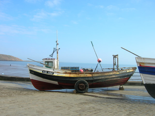 Coble Landing Slipway to the beach.